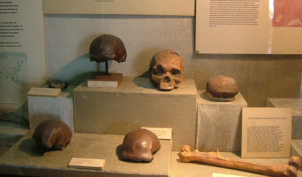 Java man. Collection of National Museum of Indonesia, Jakarta.)